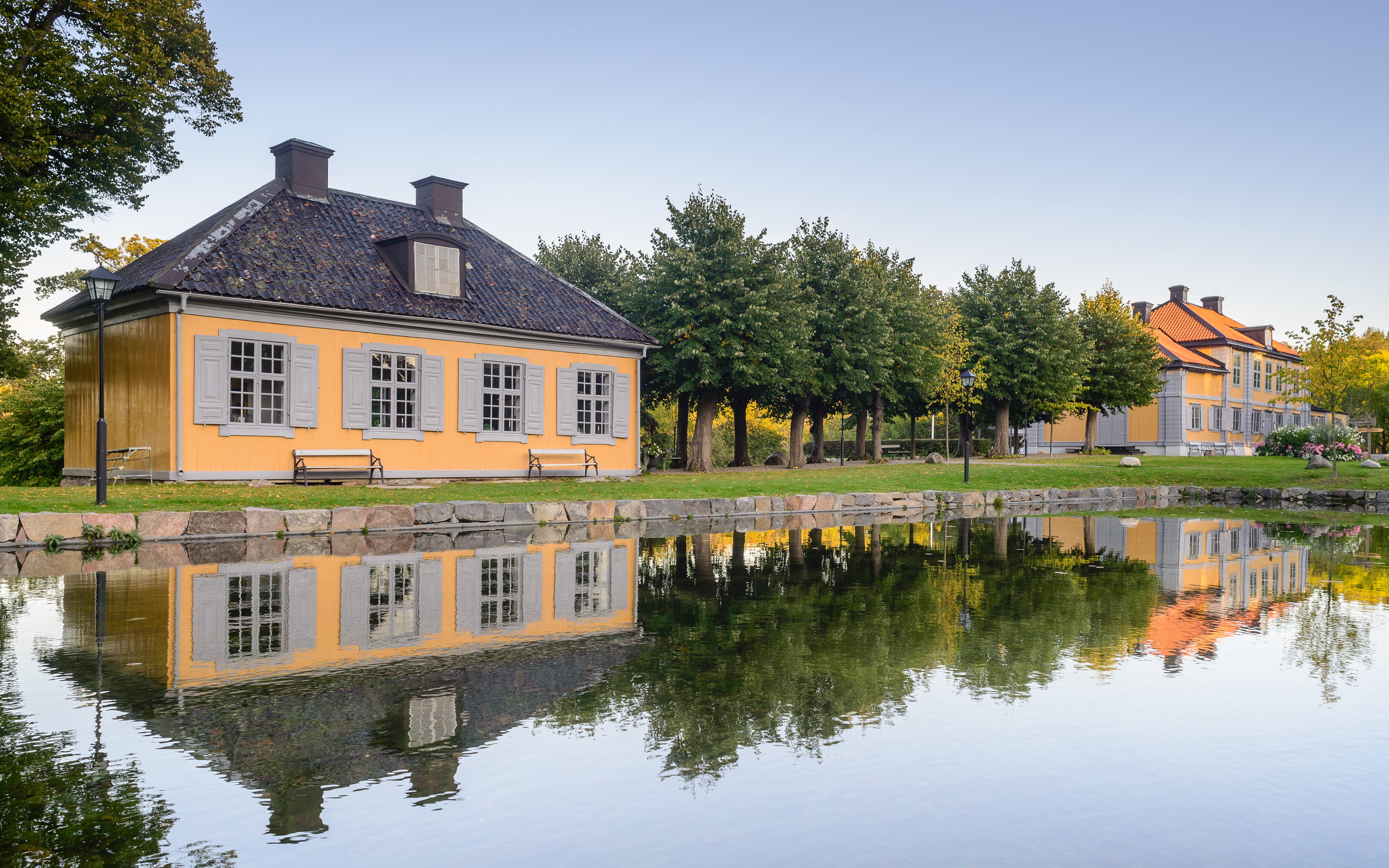 Stora Nyckelviken is a historic estate in Nacka, Stockholm County.